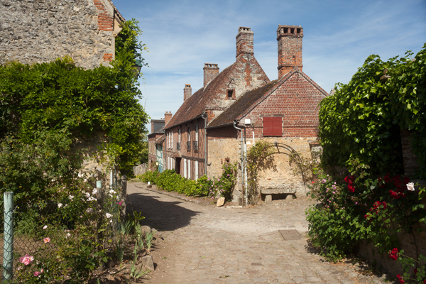 Gerberoy, Oise, Picardie, France; ; ref PM_093393_F_Gerberoy; ; Photographer: Paul M.R. Maeyaert; © Paul M.R. Maeyaert; ; Cultural heritage; Europeana; Europe/France/Gerberoy